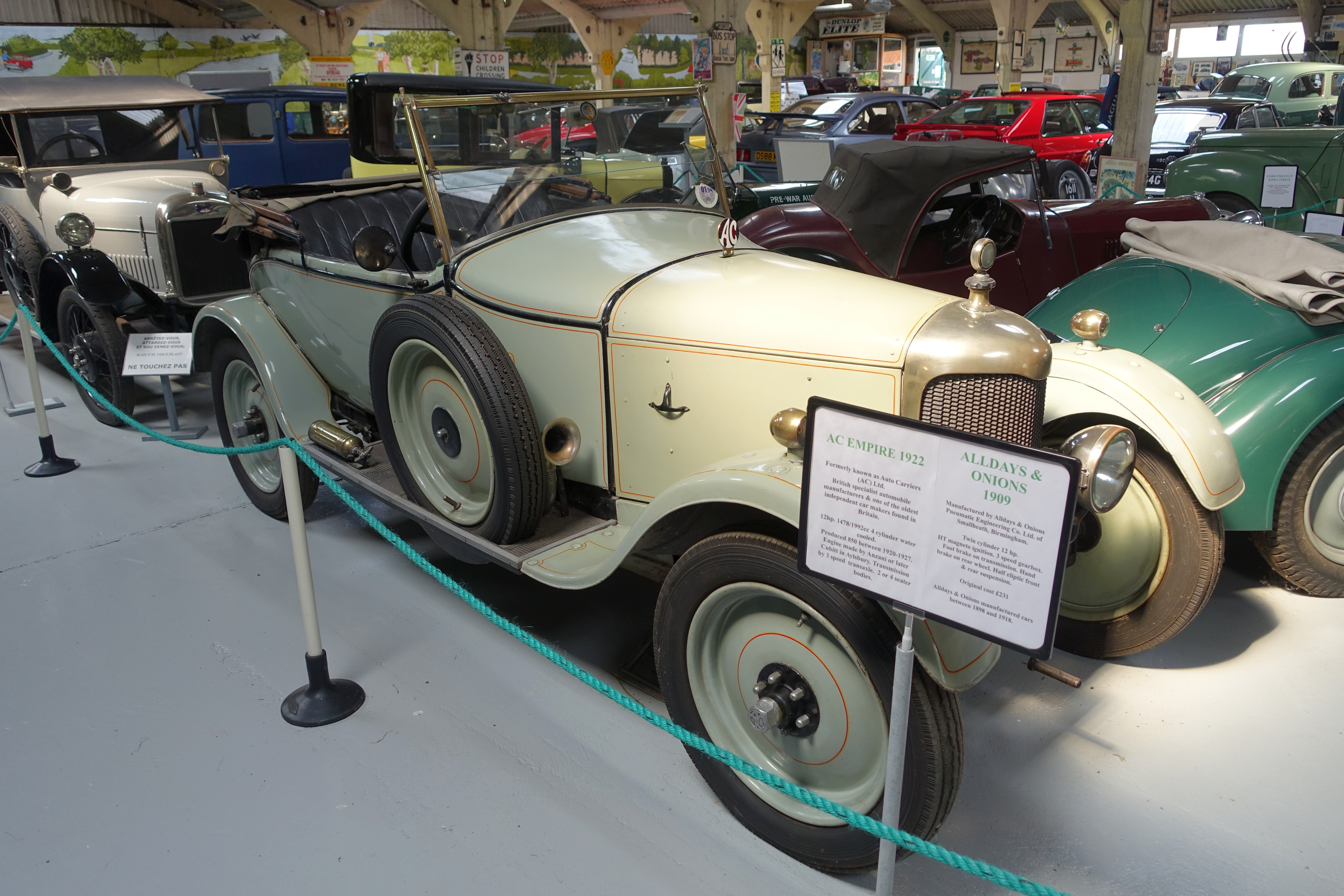 Automobile exhibited in the Bentley Wildfowl and Motor Museum - Halland, East Sussex, England.